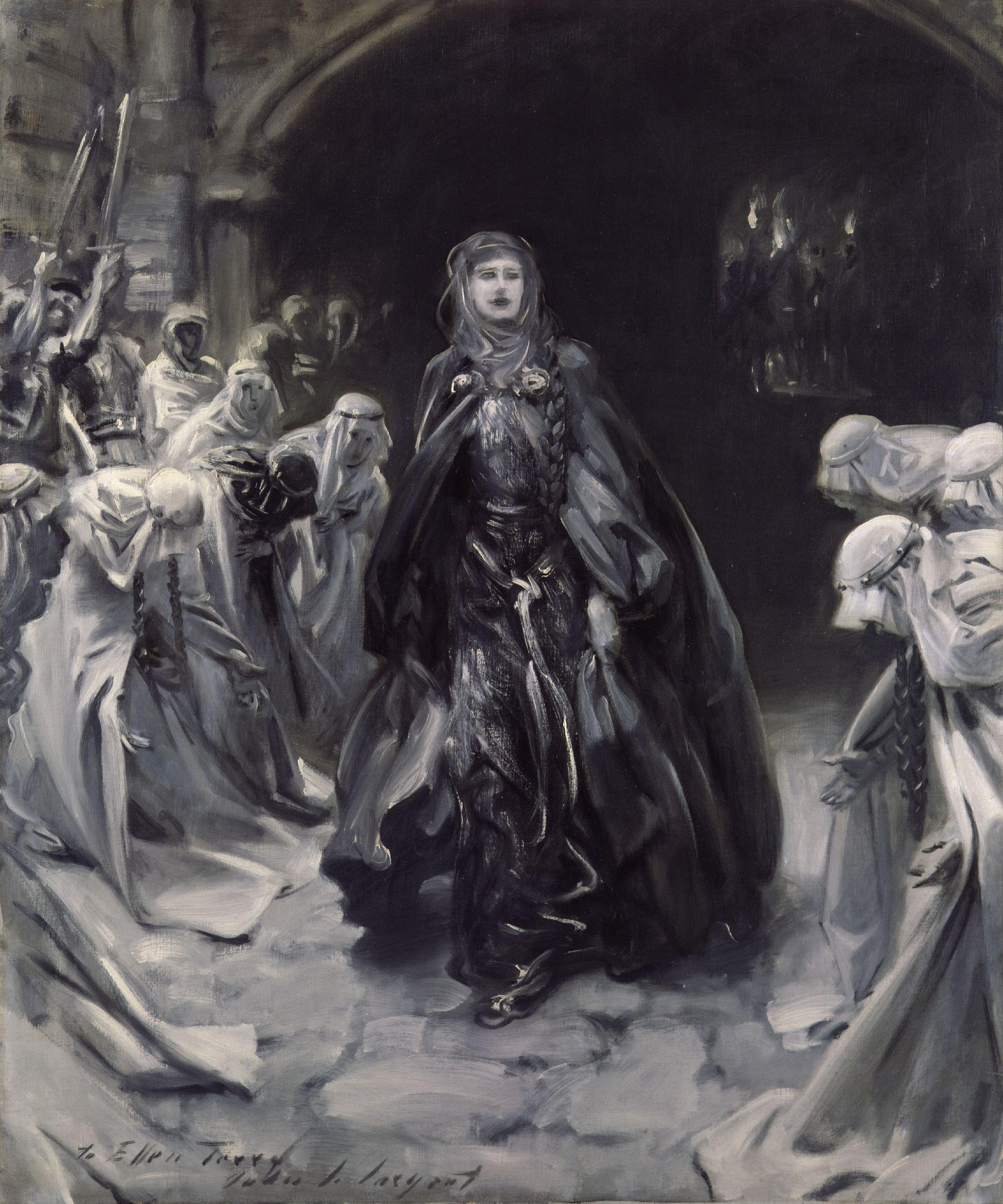 Dame (Alice) Ellen Terry, by John Singer Sargent (died 1925). All images in this batch have been confirmed as author died before 1939 according to the official death date listed by the NPG.